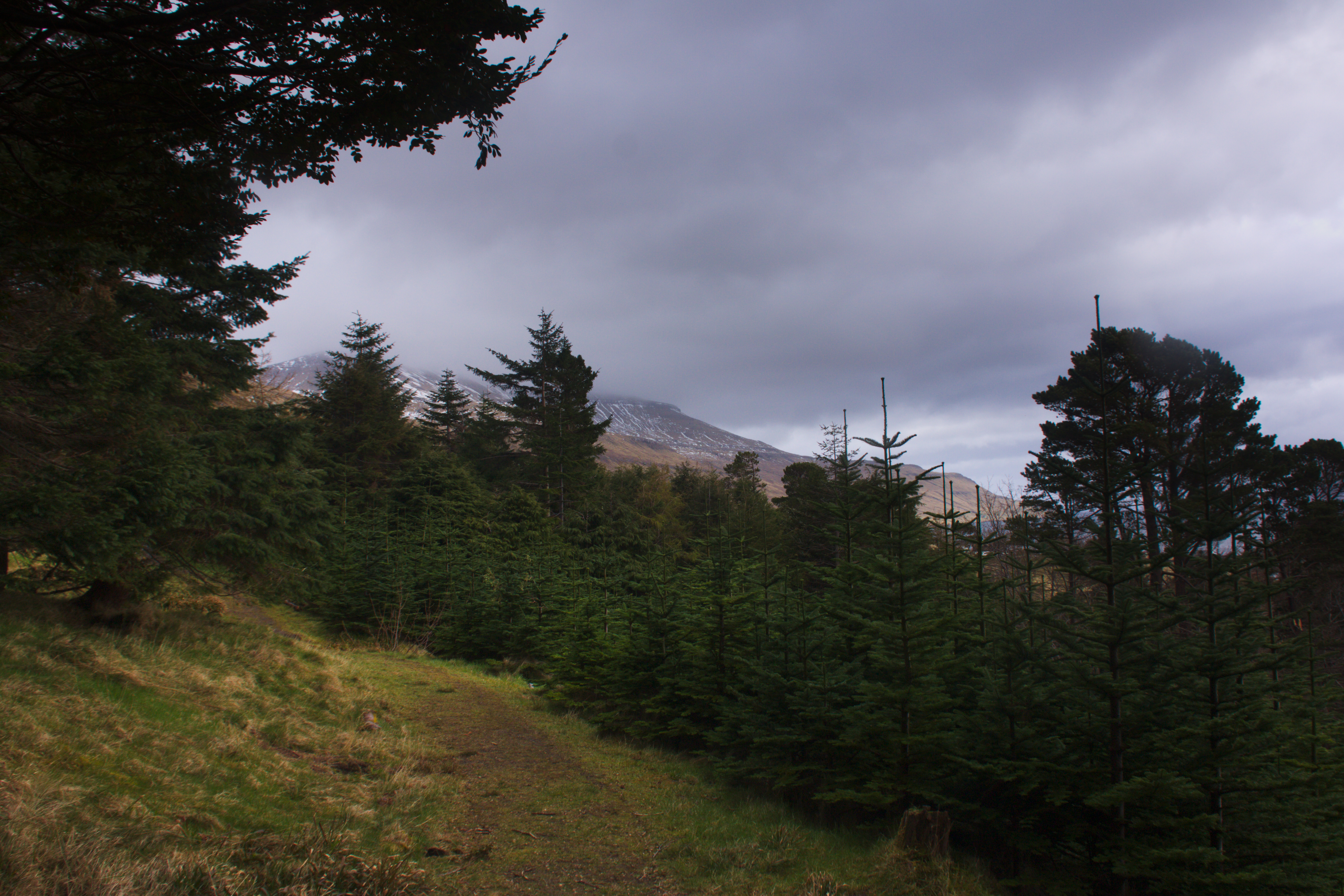 Selatrað, Eysturoy, Faroe Islands.